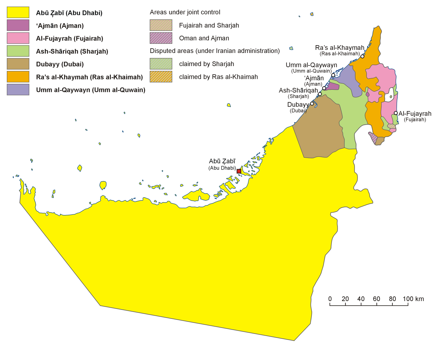 Administrative map of the United Arab Emirates in English